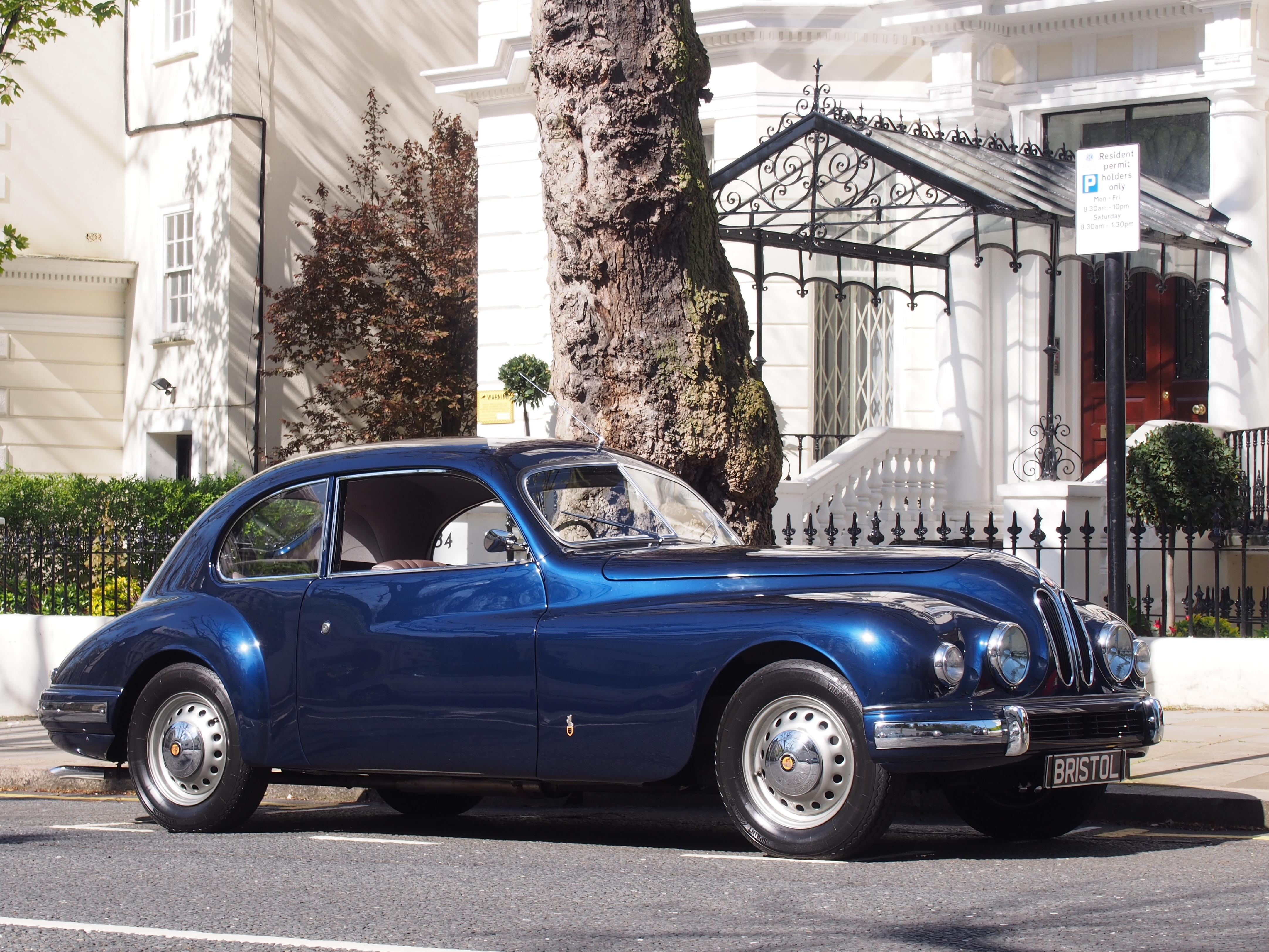 An immaculate 1952 Bristol 401, photographed in Holland Park.